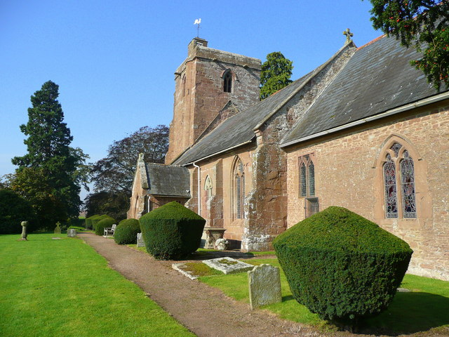 St. Mary's church, Foy The south side of the building on a good sunny September morning.